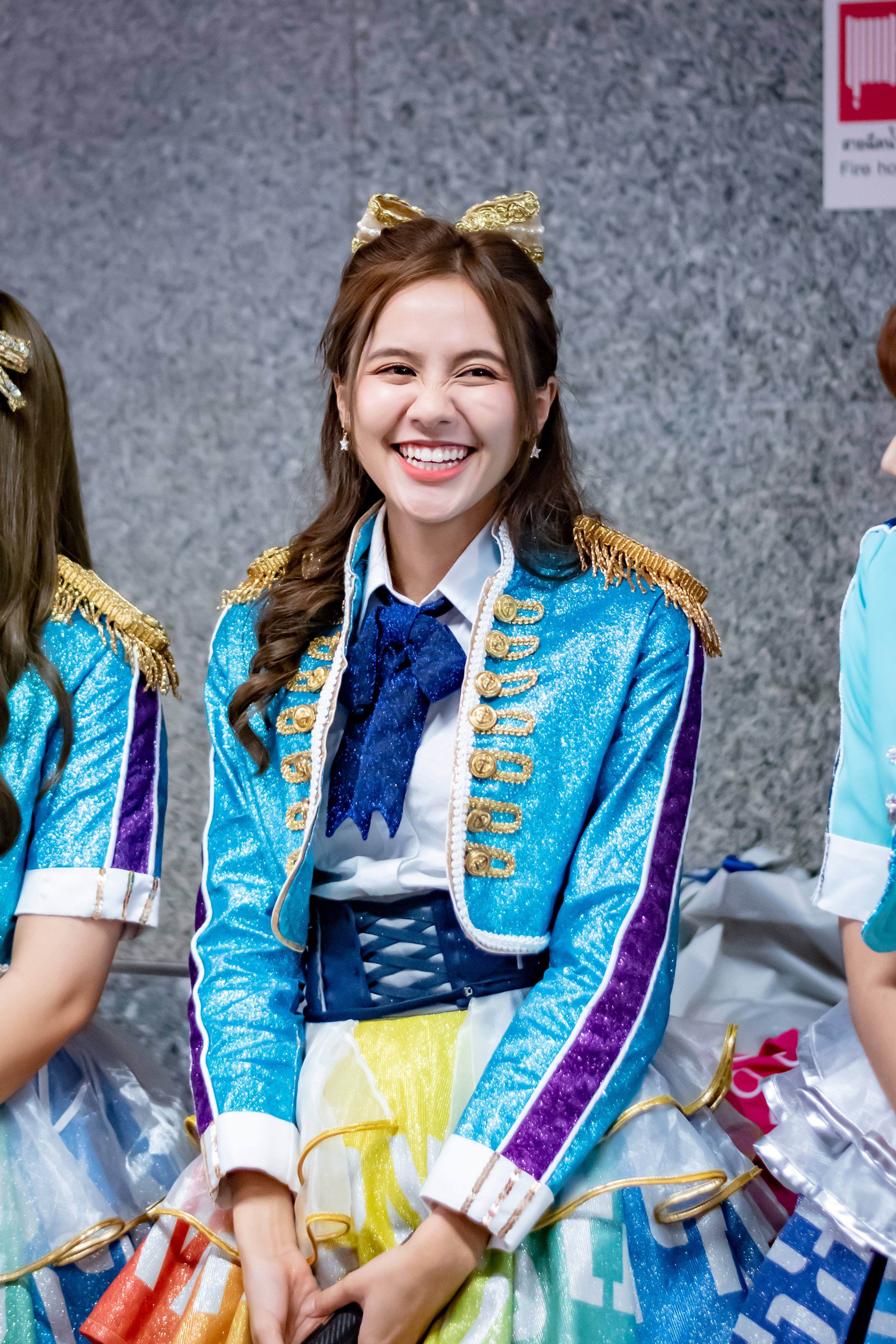 Milin Dokthian (Namneung) before her performance at Metro Mall Chatuchak grand opening event. On that day, she was with Tarwaan, Jib, Nink, Pupe, and Satchan, all are members of the 1st generation of BNK48.